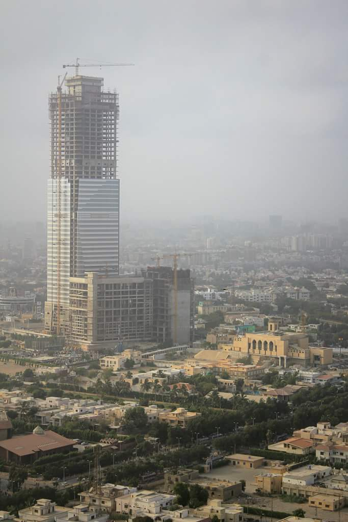 Bahria Icon Tower Underconstruction March, 2016